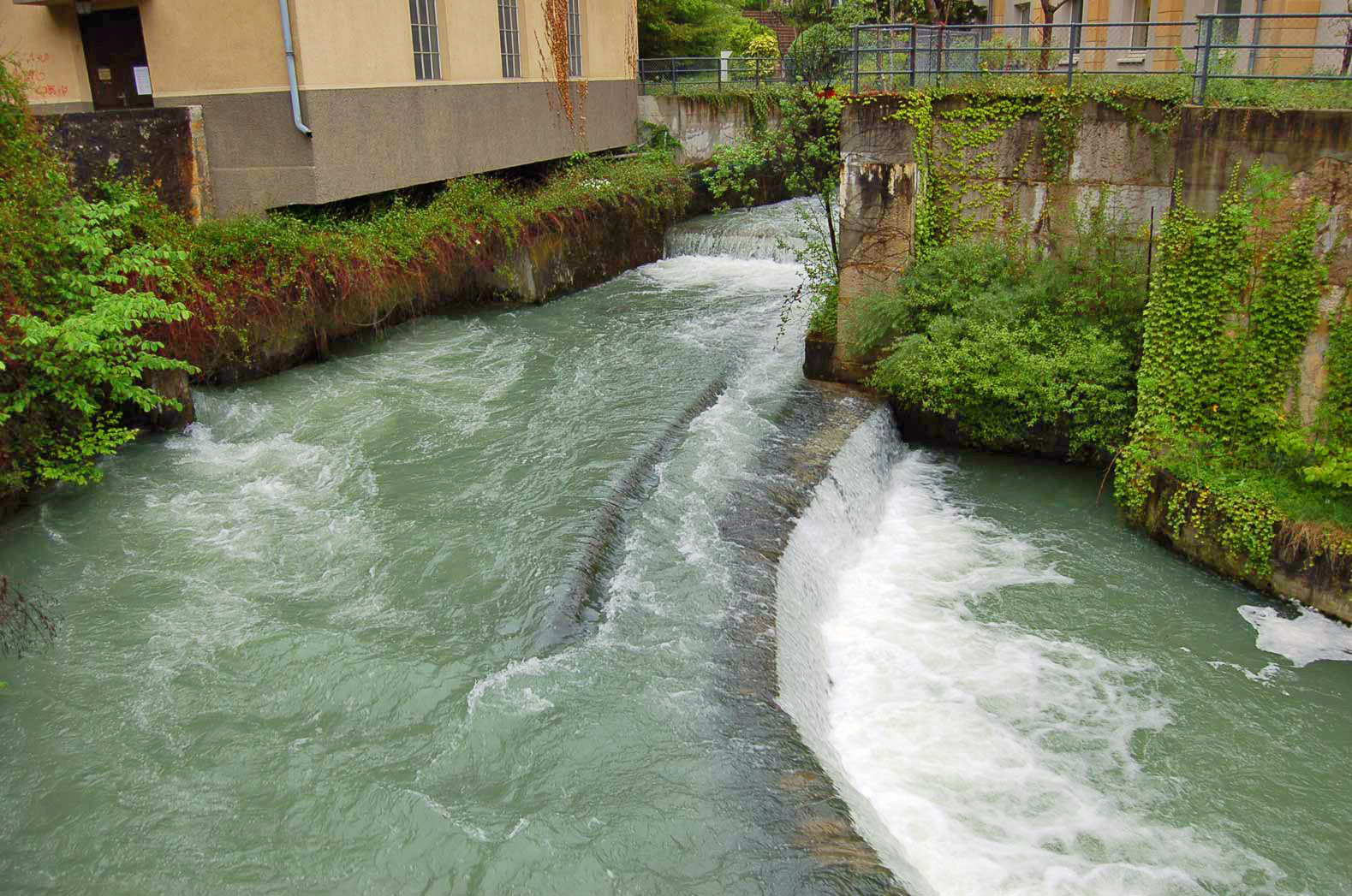 The Serrière River, in Neuchâtel, Swizerland